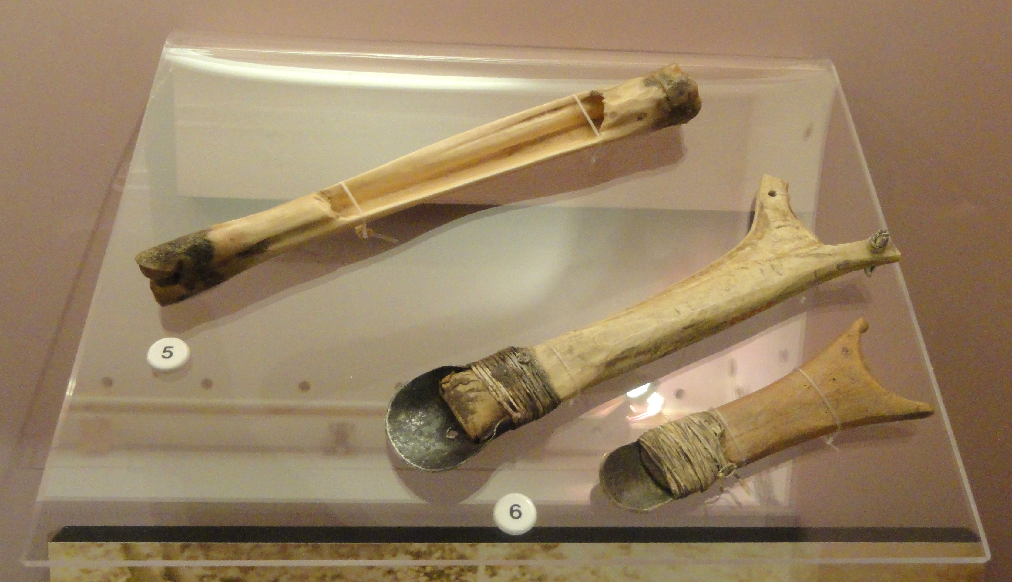 Beamer (top) and grainers (bottom), Naskapi or Montagnais. Exhibit from the Native American Collection, Peabody Museum, Harvard University, Cambridge, Massachusetts, USA. Photography was permitted without restriction; exhibit is old enough so that it is in the public domain.